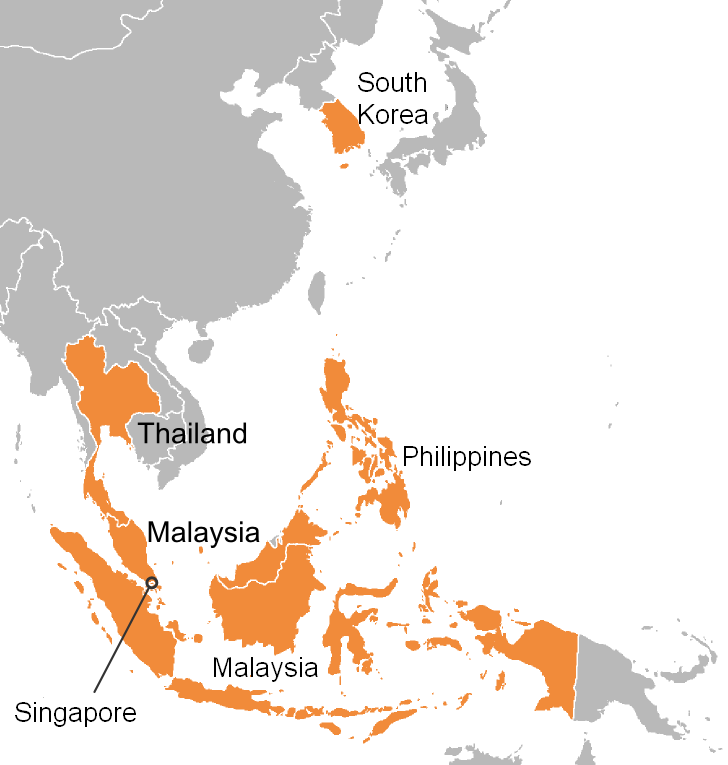 Countries that were most affected by the 1997 Asian Financial Crisis. (English version)